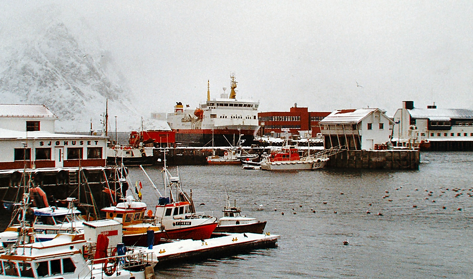 Honningsvag Harbour